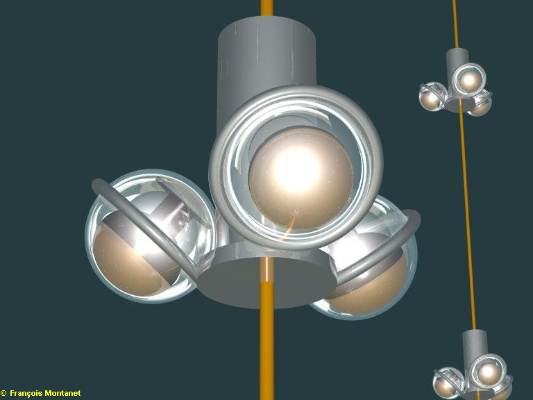 Storey with 3 optical modules